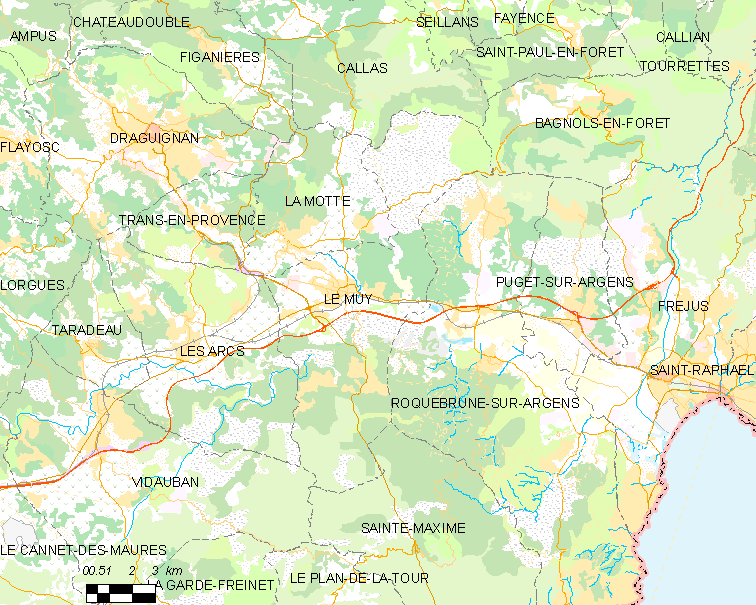 Map of French municipality Le Muy